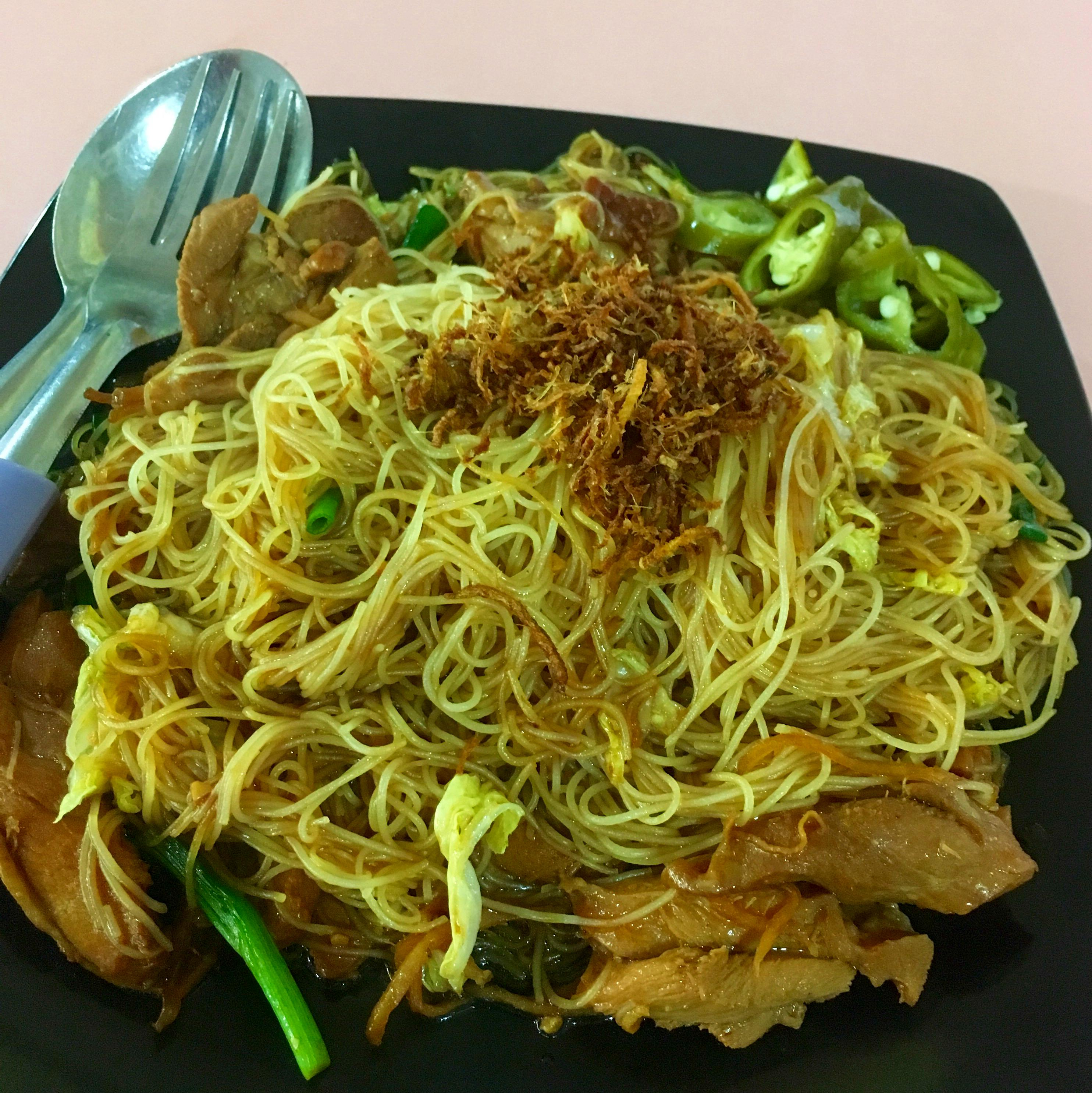 Fried rice vermicelli noodle with ginger and sesame wine chicken, garnish with fried onion and green chilli.